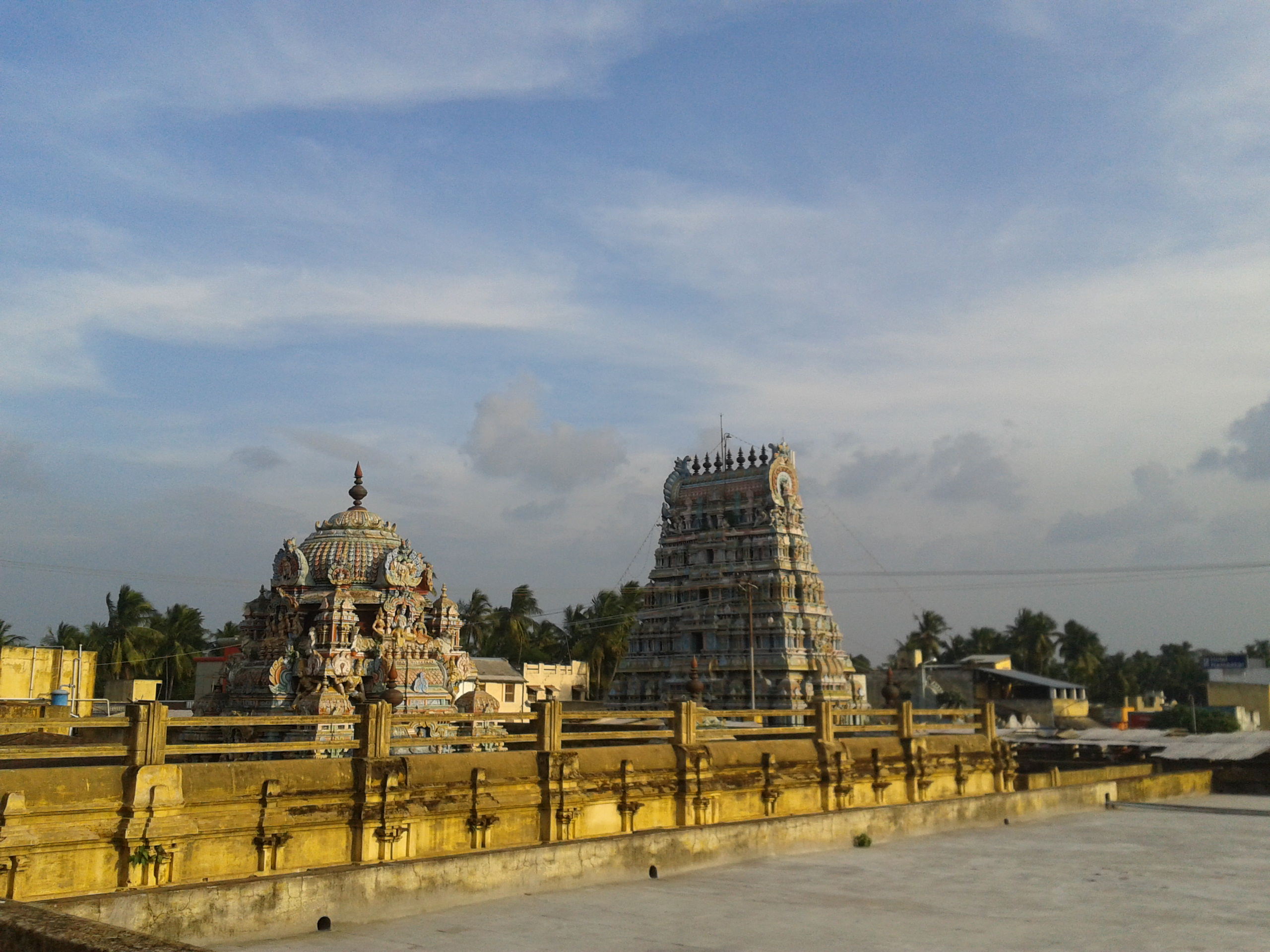 A view from the top of the swamymalai tirukovil near Kumbakonam